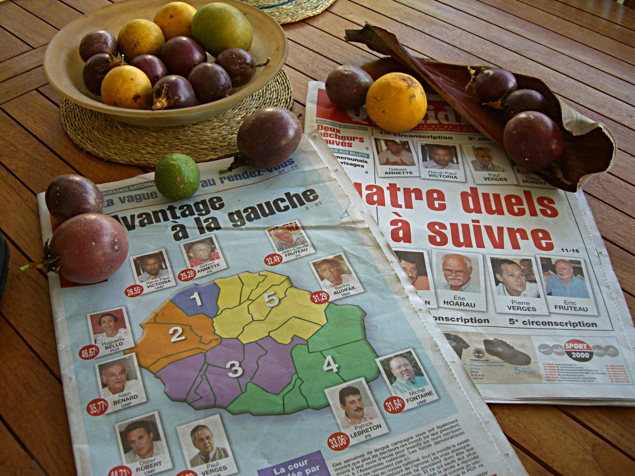 Frontpages showing French (La Réunion) general elections 2007 estimates